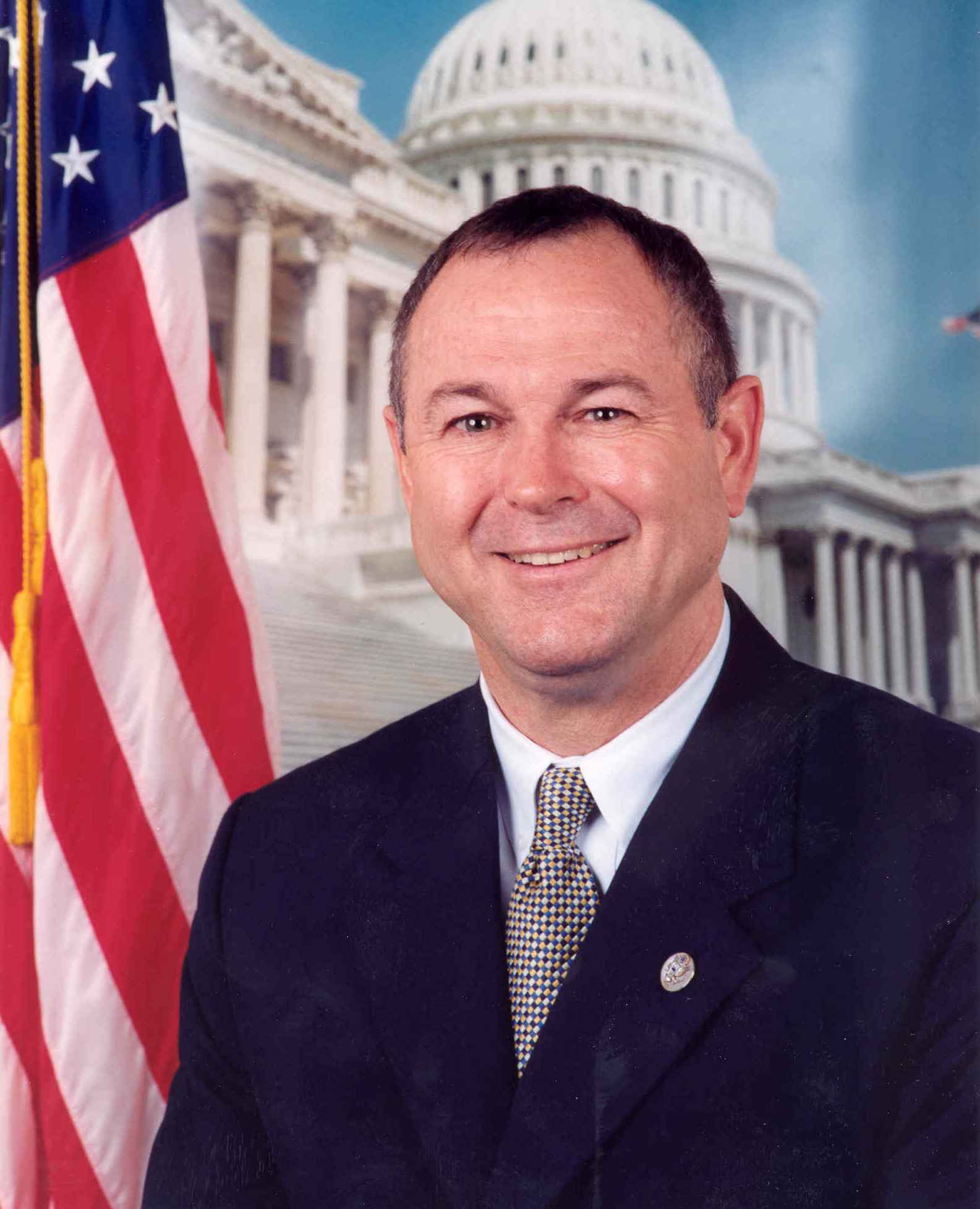 Rohrabacher photo